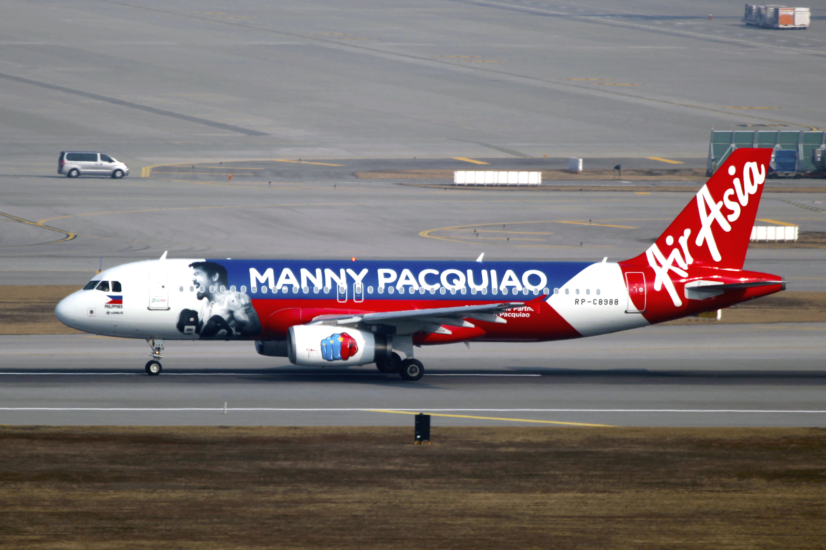 RP-C8988 | AirAsia Zest | Airbus A320-232 | Manny Pacquiao Livery | Seoul Incheon International Airport [ICN]